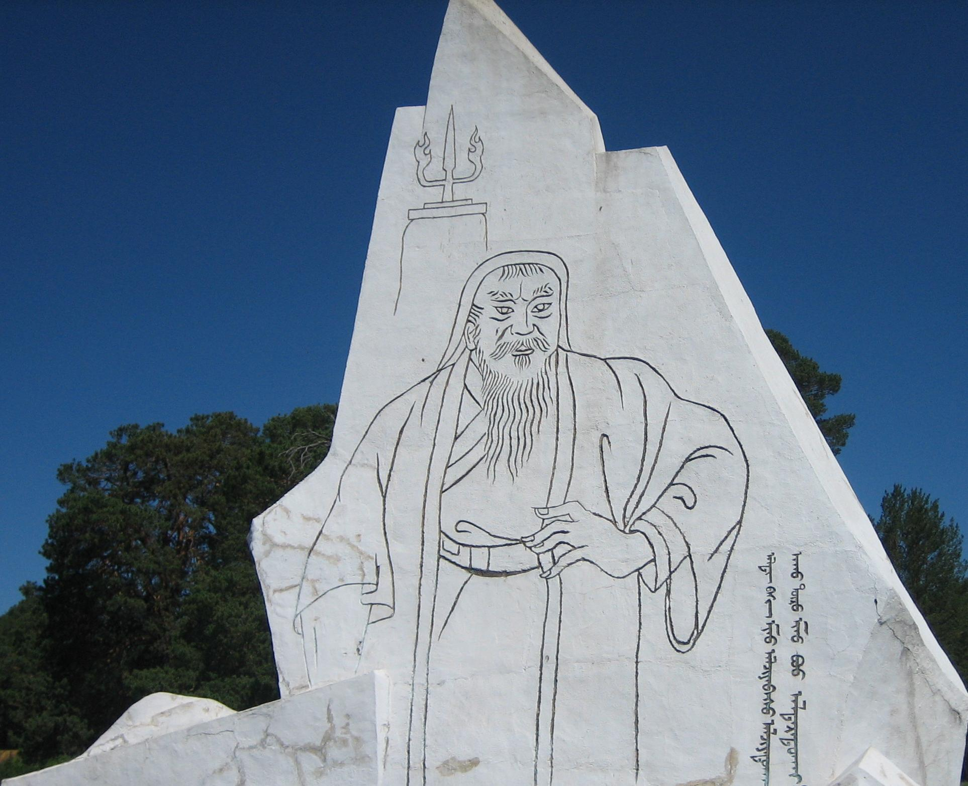 A Statue of Chingghis/Genghis Khan at Dadal sum, Hentii aimag. "May my body become tired, if only my state is in order." Монгол: "Алд бие минь алжааваас алжаатугай, ахуй төр минь бүү алдартугай." ᠠᠯᠳᠠ ᠪᠡᠶ᠎ᠡ ᠮᠢᠨᠤ ᠠᠯᠵᠢᠶᠠᠪᠠᠰᠤ ᠠᠯᠵᠢᠶᠠᠲᠤᠭᠠᠢ ᠠᠬᠤ ᠲᠥᠷᠦ ᠮᠢᠨᠤ ᠪᠦᠦ ᠠᠯᠳᠠᠷᠠᠲᠤᠭᠠᠢ᠅